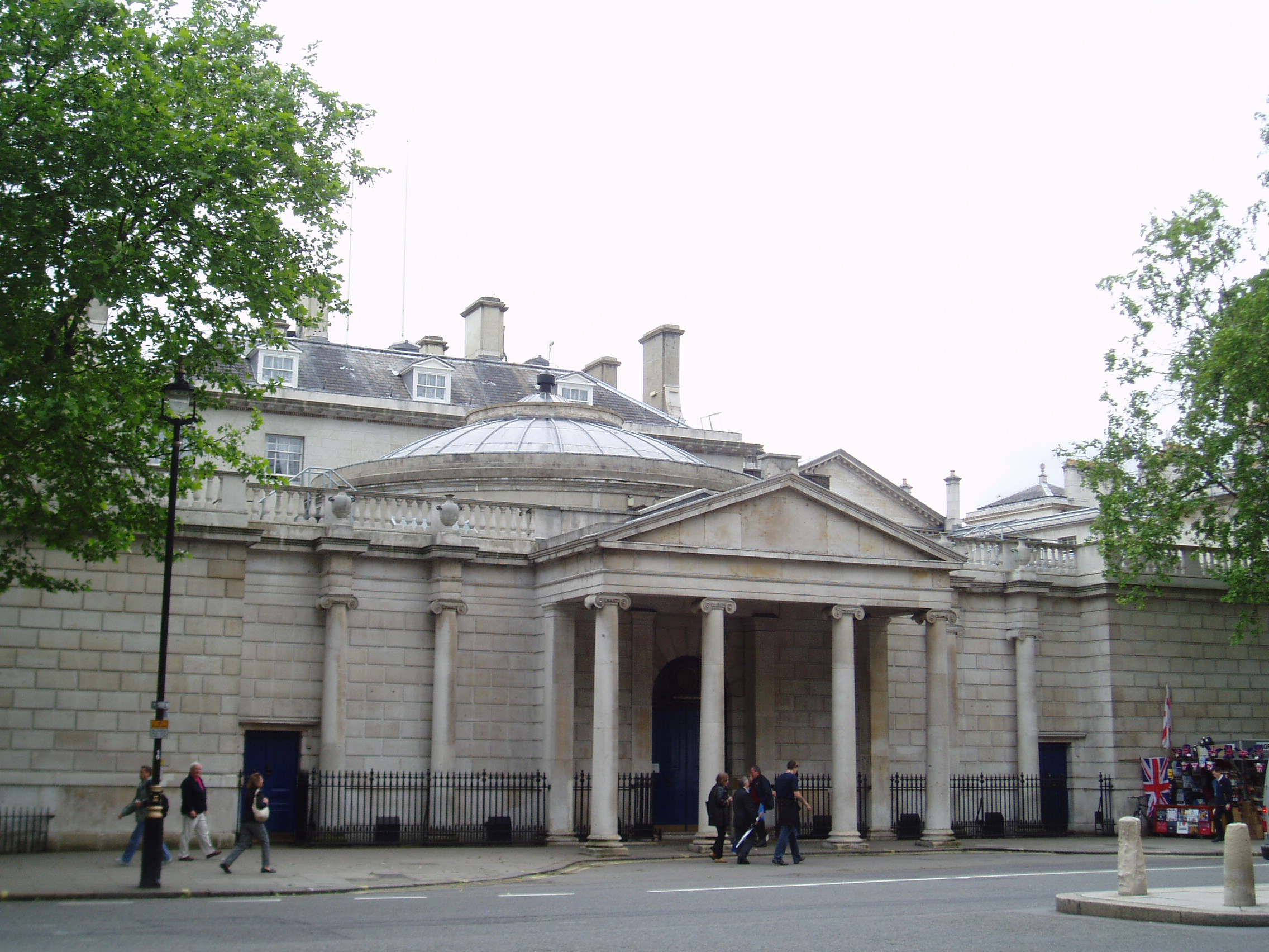 Dover House, Whitehall, London. By James Paine and Henry Holland